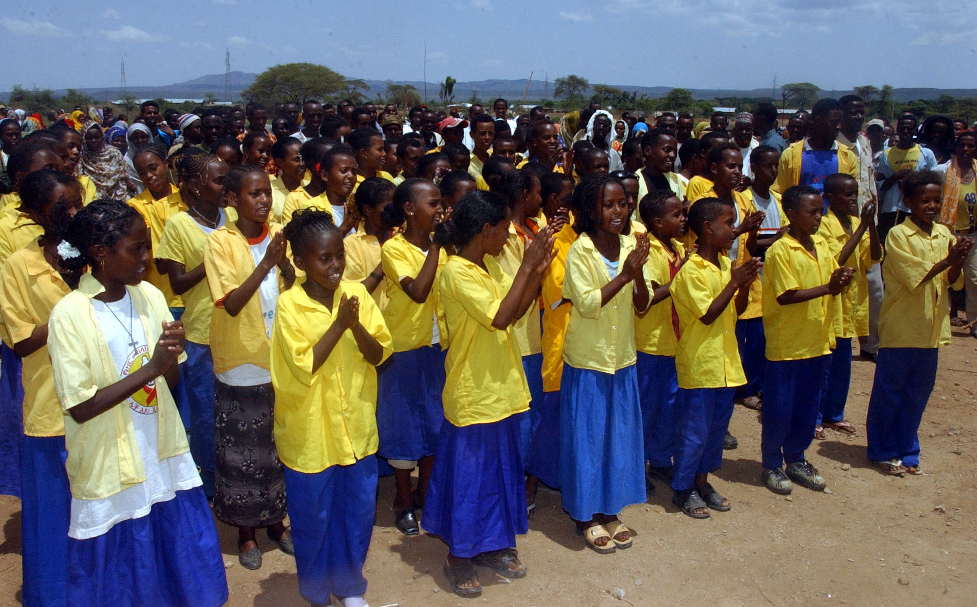 (1,917 × 1,190 pixels - 597 KB) by Sgt. Bradley Shaver "The children of Hurso, Ethiopia, give thanks to the engineers and civil affairs personnel from the Combined Joint Task Force – Horn of Africa, who built a school and clinic."